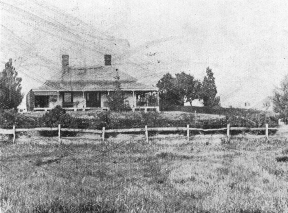 Jacob Kircher's Assmanshausen, Warwick, 1901. Jacob Kircher acquired land at Sandy Creek, where he built his home and started the Assmanshousen Winery. (Description supplied with photograph).